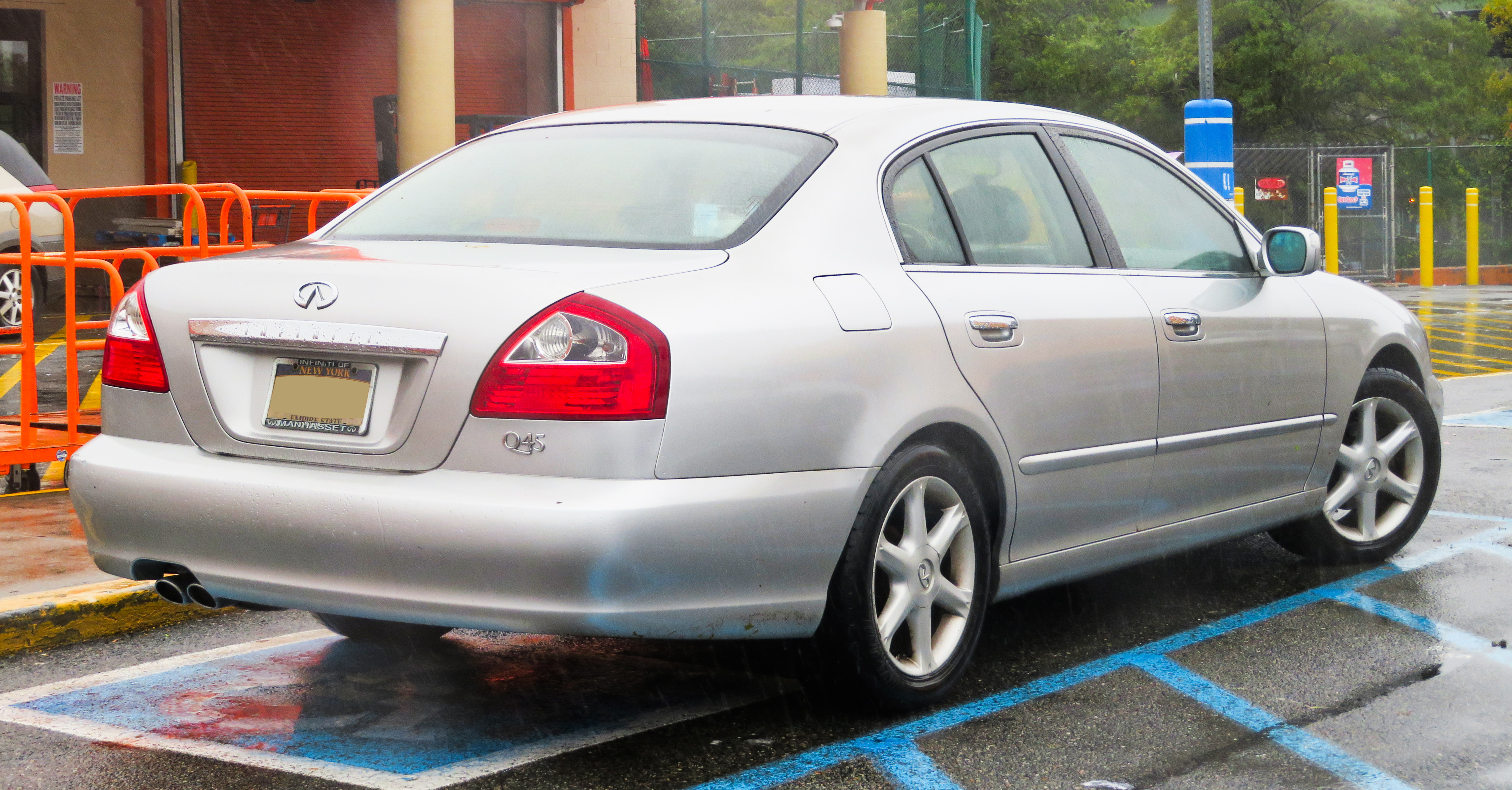 A 2003 Infiniti Q45 photographed in Flushing, Queens, New York, USA